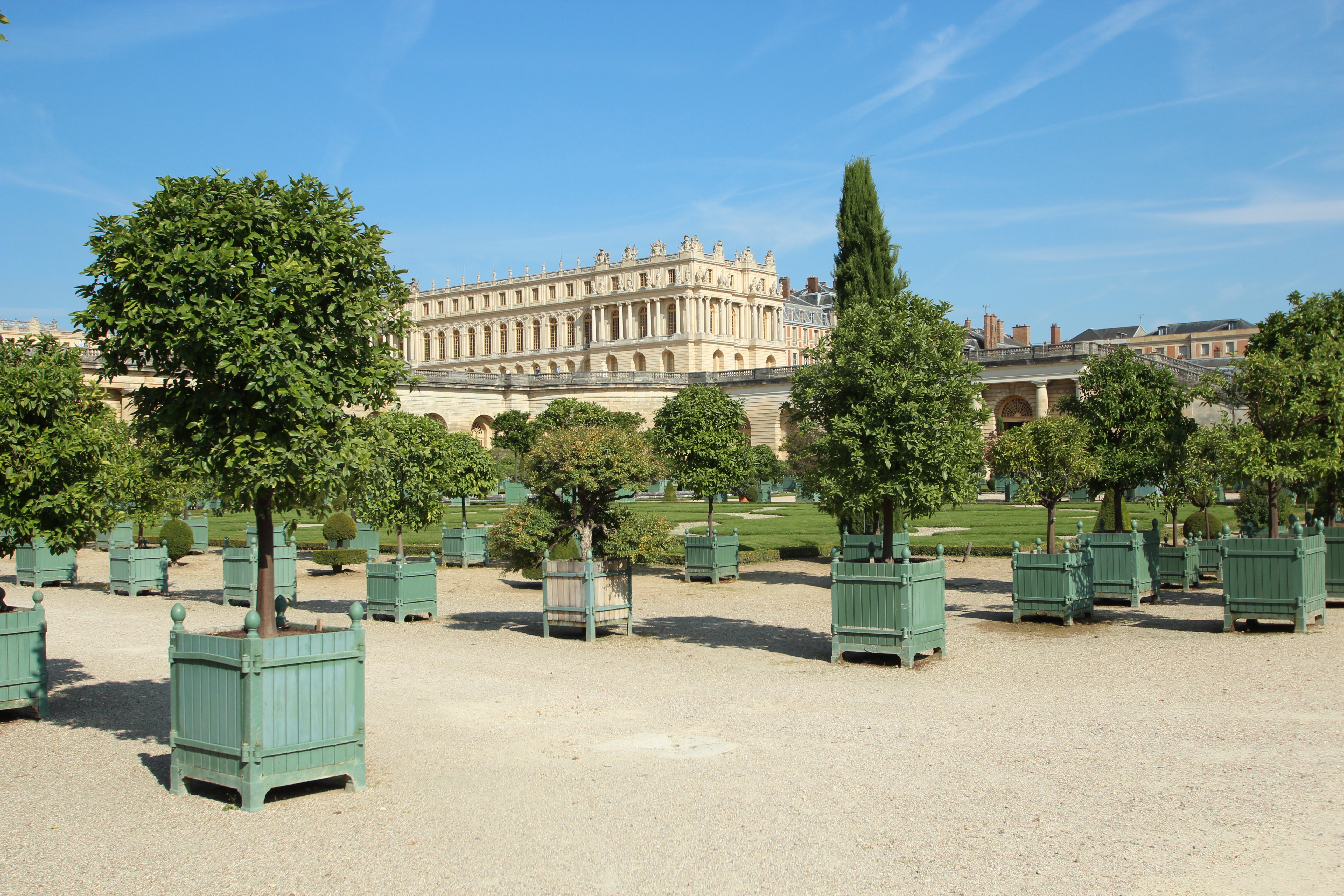 Orangery in the Palace of Versailles, France. Object location48° 48′ 08.32″ N, 2° 07′ 06.56″ E . This image was uploaded as part of L'Été des villes 2015.